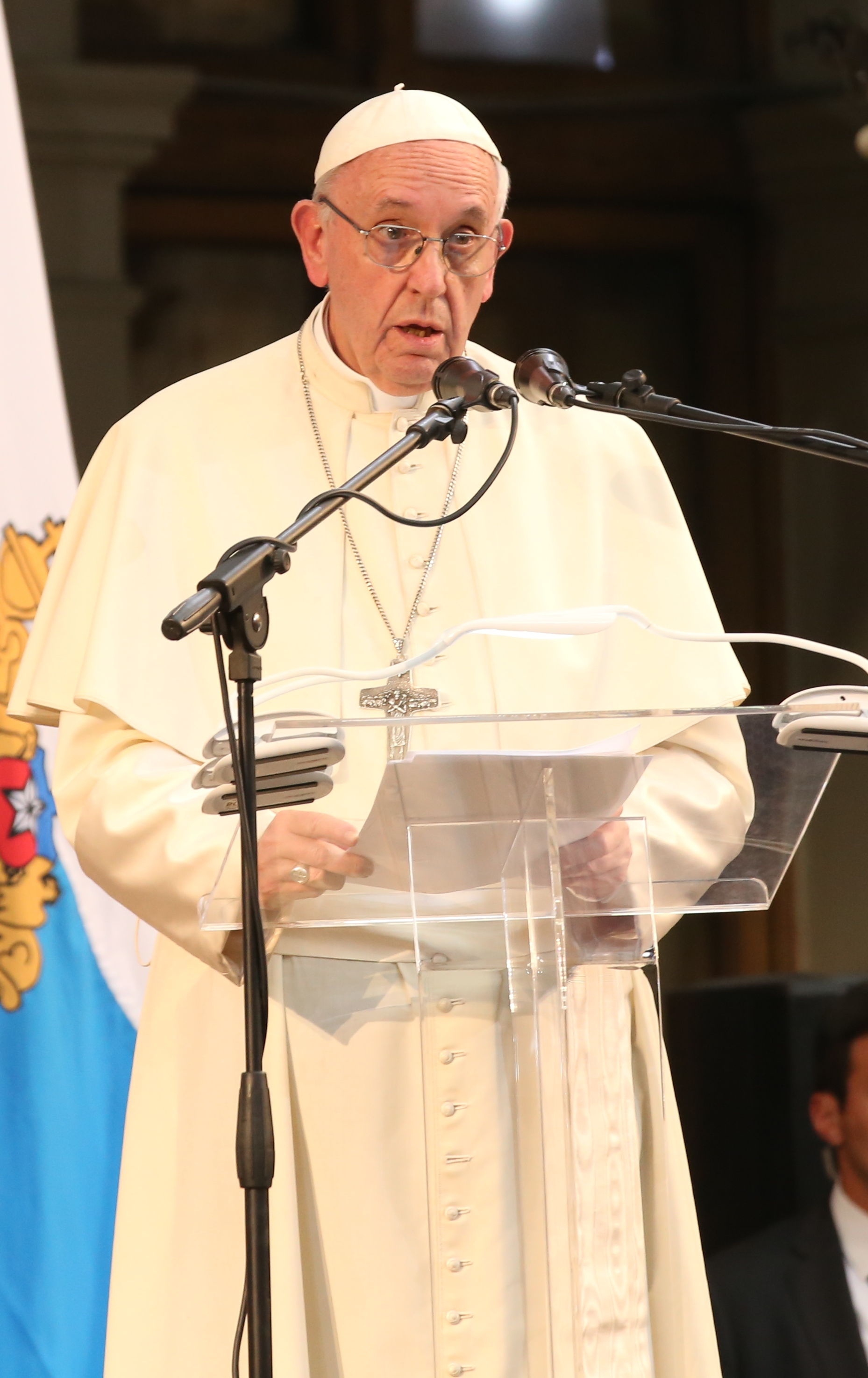 Cropped photo of Franciscus (Pope Francis) making a speech in the Pontifical Catholic University of Chile